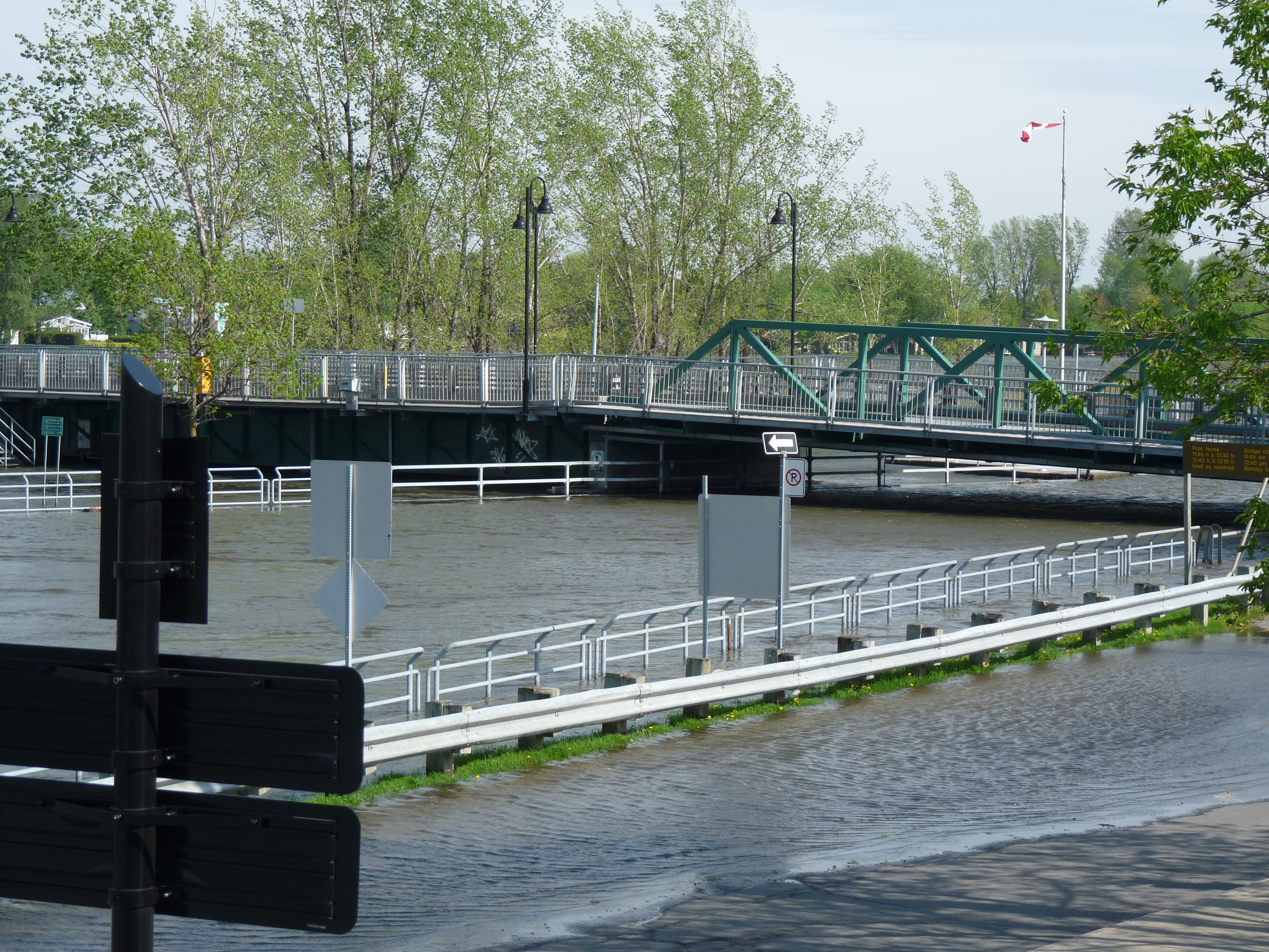 Water level reaching the Gouin bridge in Saint-sur-Richelieu because of the Richelieu River flodding in 2011. On this side view, one can see the lock of the Chambly canal flooded.